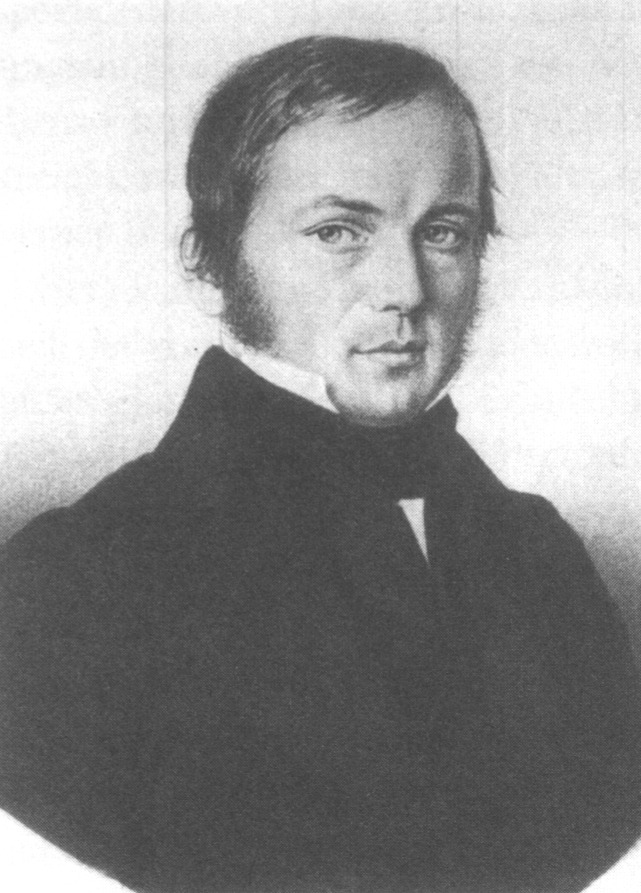 Hermann Gundert (1814-1893) German missionary and scholar